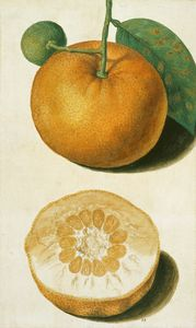 Painting of whole and half pomelo from Cassiano dal Pozzo's Museum chartaceum